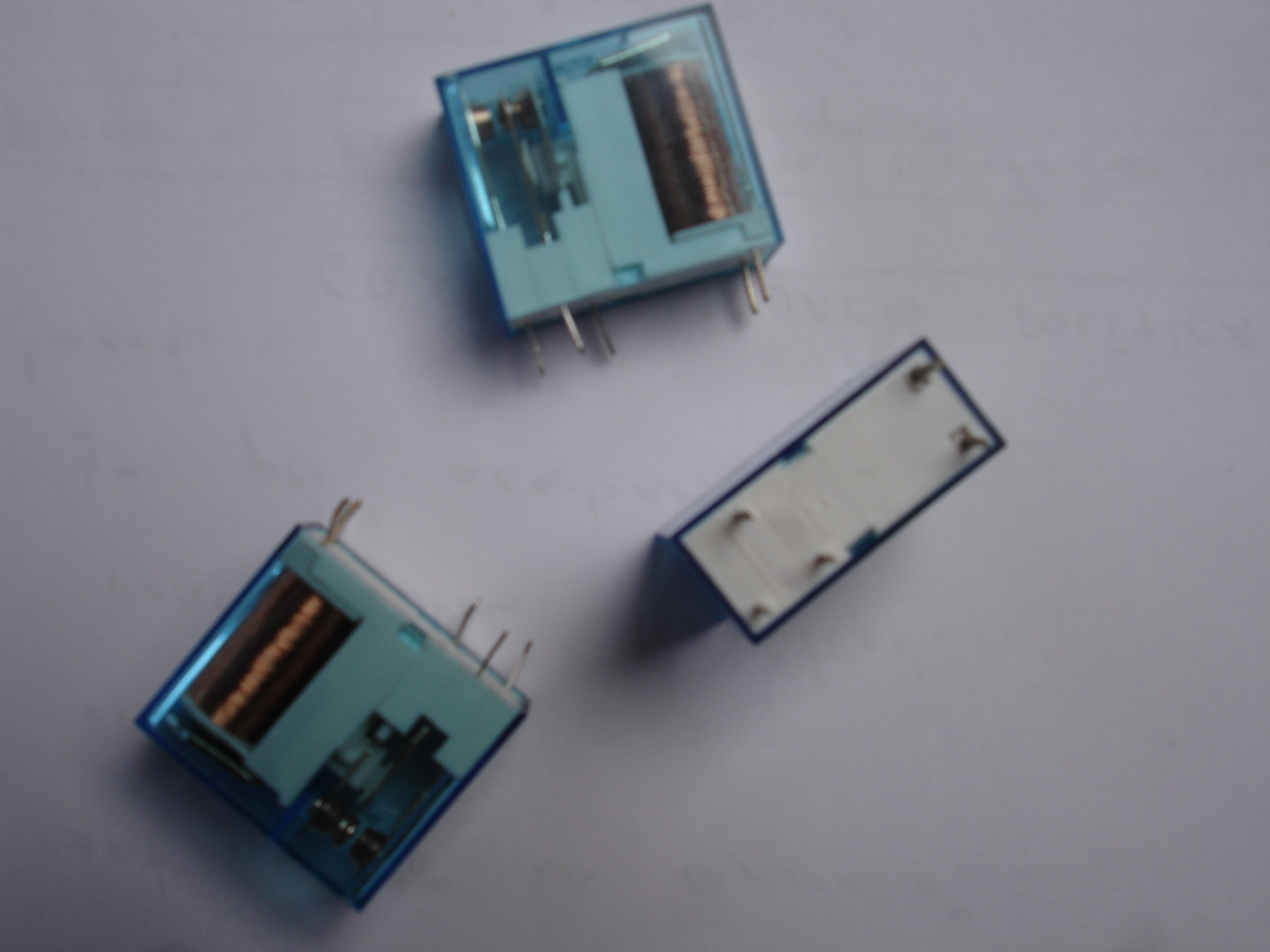 3 small electronic relays. You can view the contacts, the coil, the steady position...